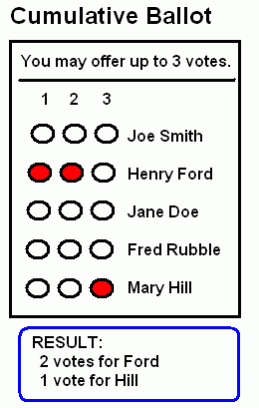 Cumulative Voting example ballot